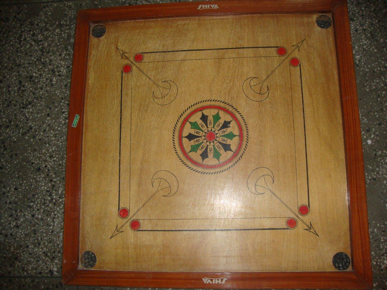 A Carrom Board